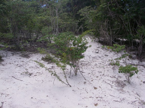 A picture from the field area where Sirenoscincus mobydick has been collected.